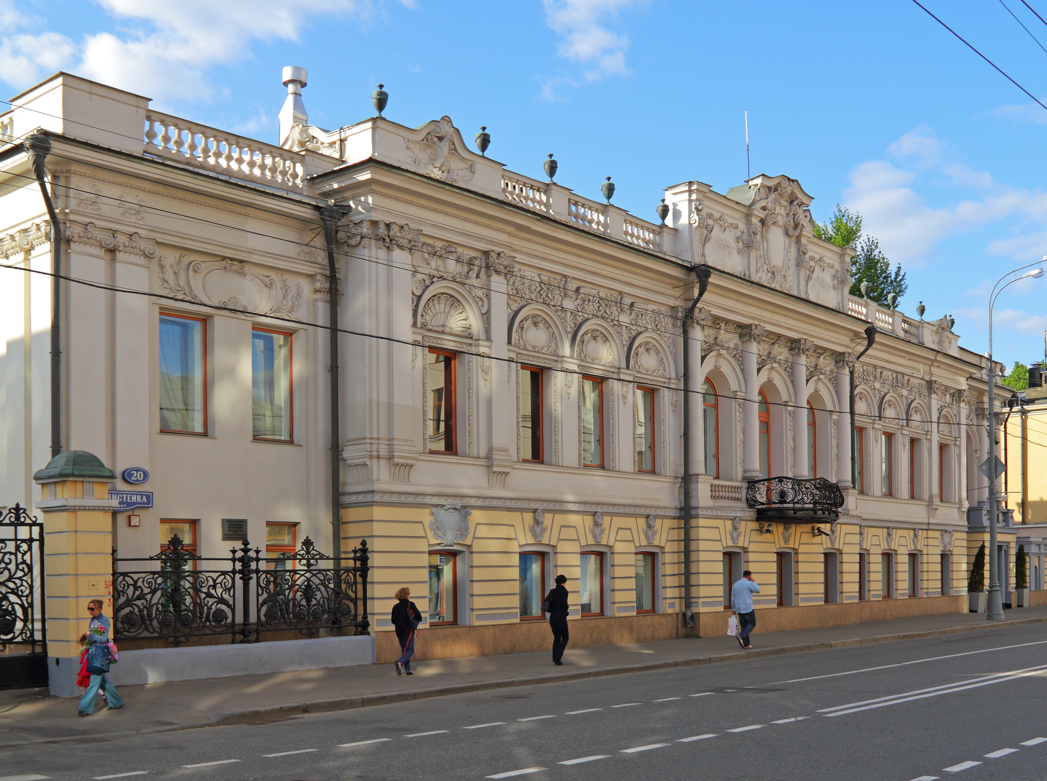 Moscow, Russia. Prechistenka Street. A 19th century house.